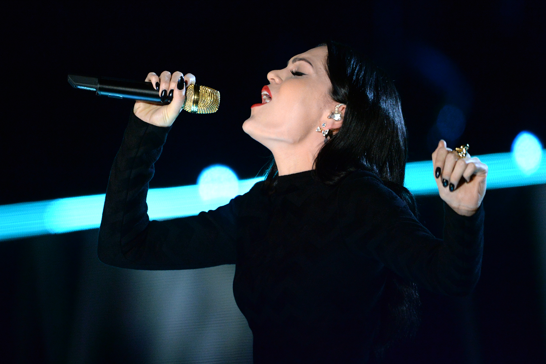 Jessie J. performs during The Concert for Valor in Washington, D.C. Nov. 11, 2014. DoD News photo by EJ Hersom